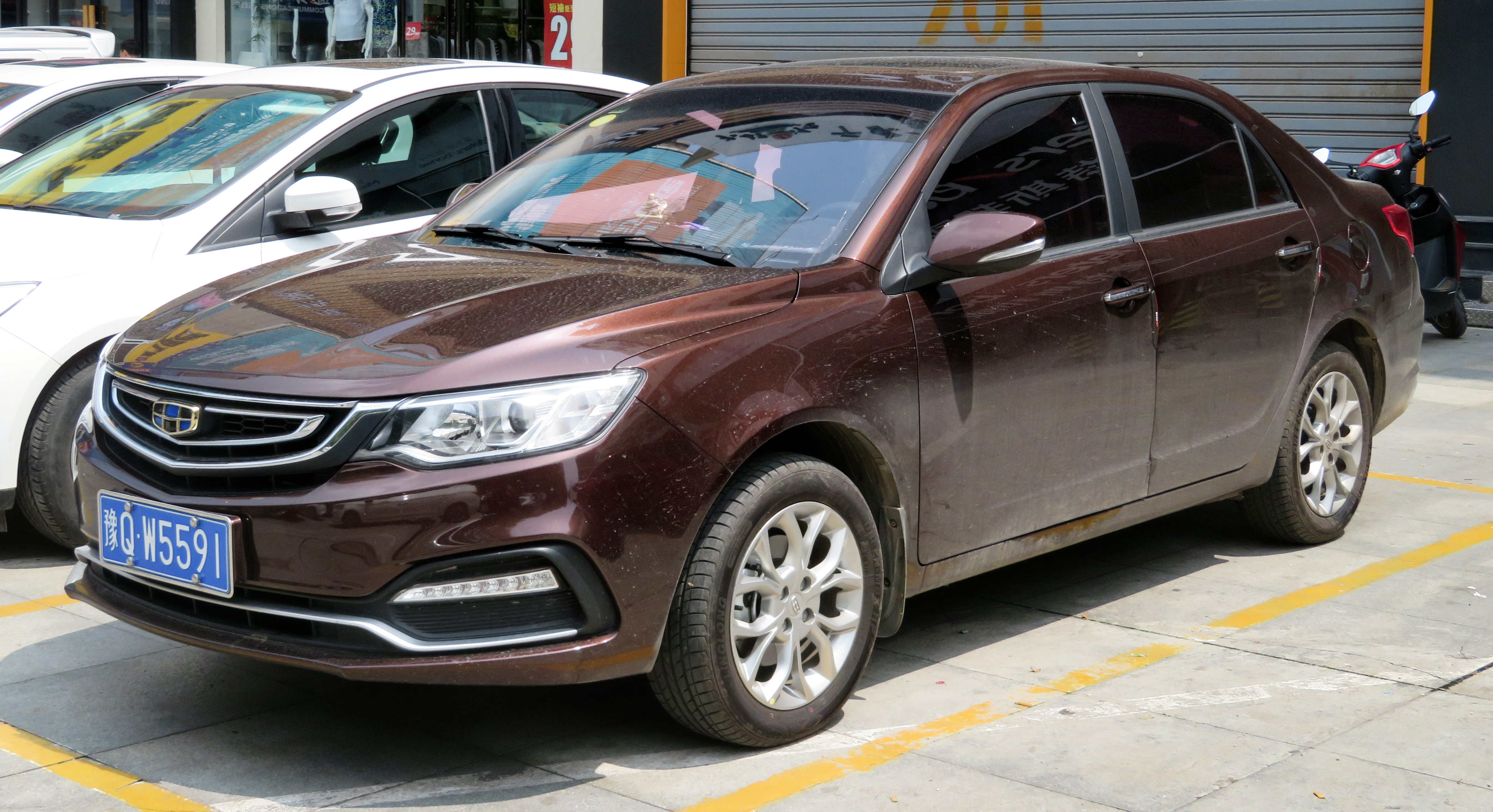 A 2018 Geely Yuanjing (Vision) photographed in Xigong District, Luoyang, Henan province, China